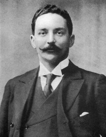 J. Bruce Ismay, president of the White Star Line, in 1912.